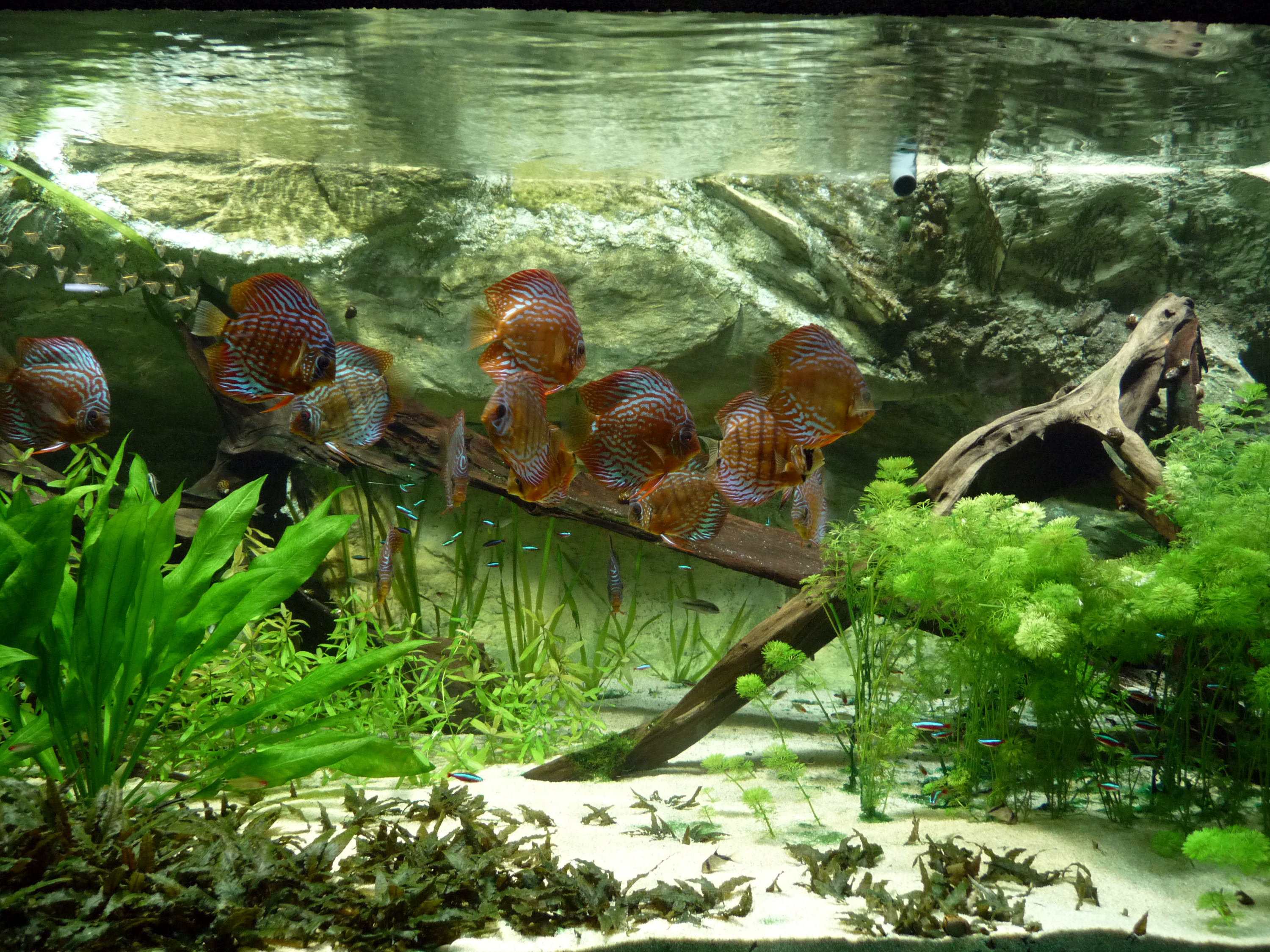 Symphysodon tank with tetras